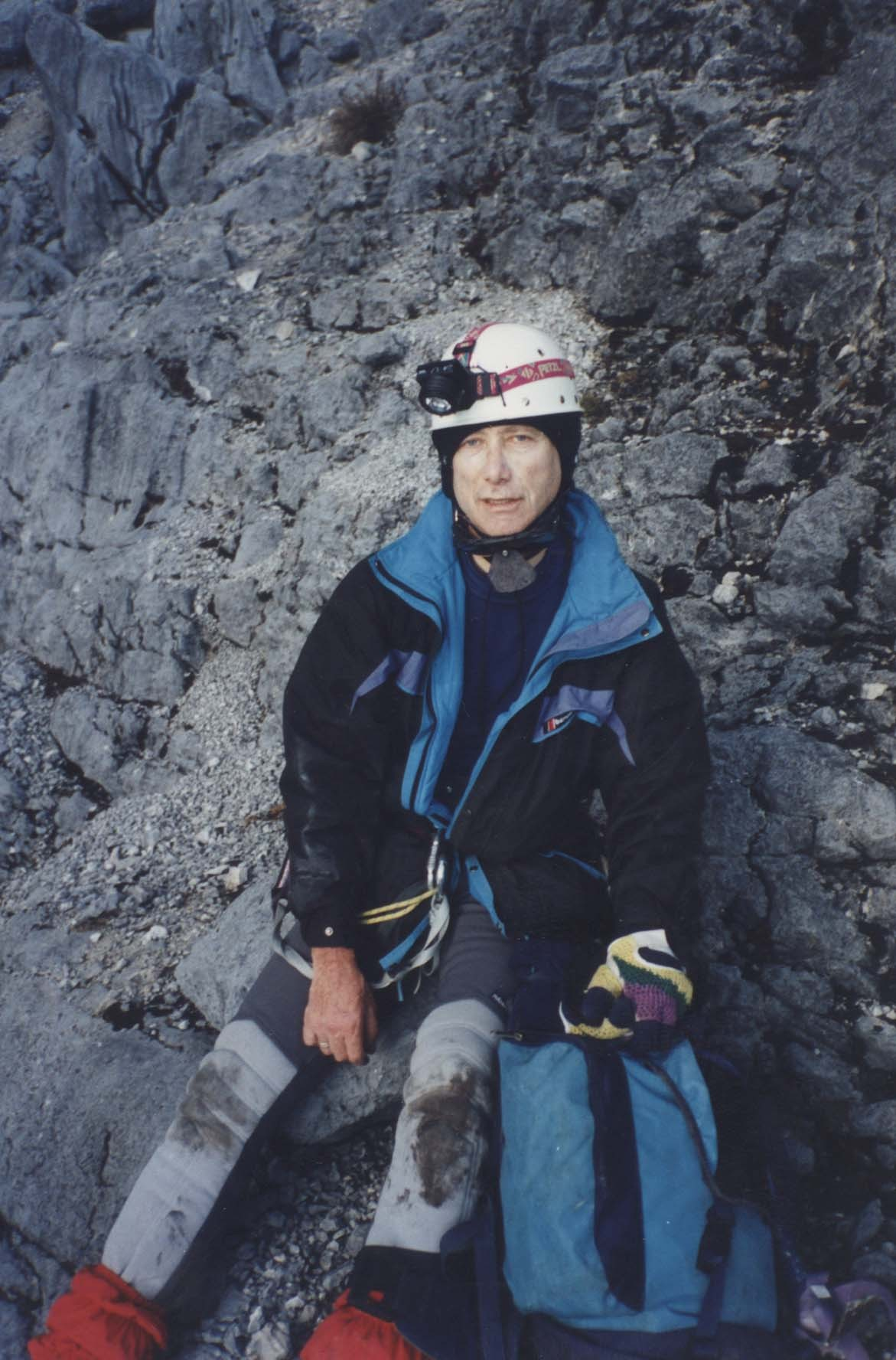 Neville Shulman on the way to climbing to the Summit of Mt Ngga Pulu (4,862 metres) in Irian Jaya (now Western Papua) New Guinea in November 1996.